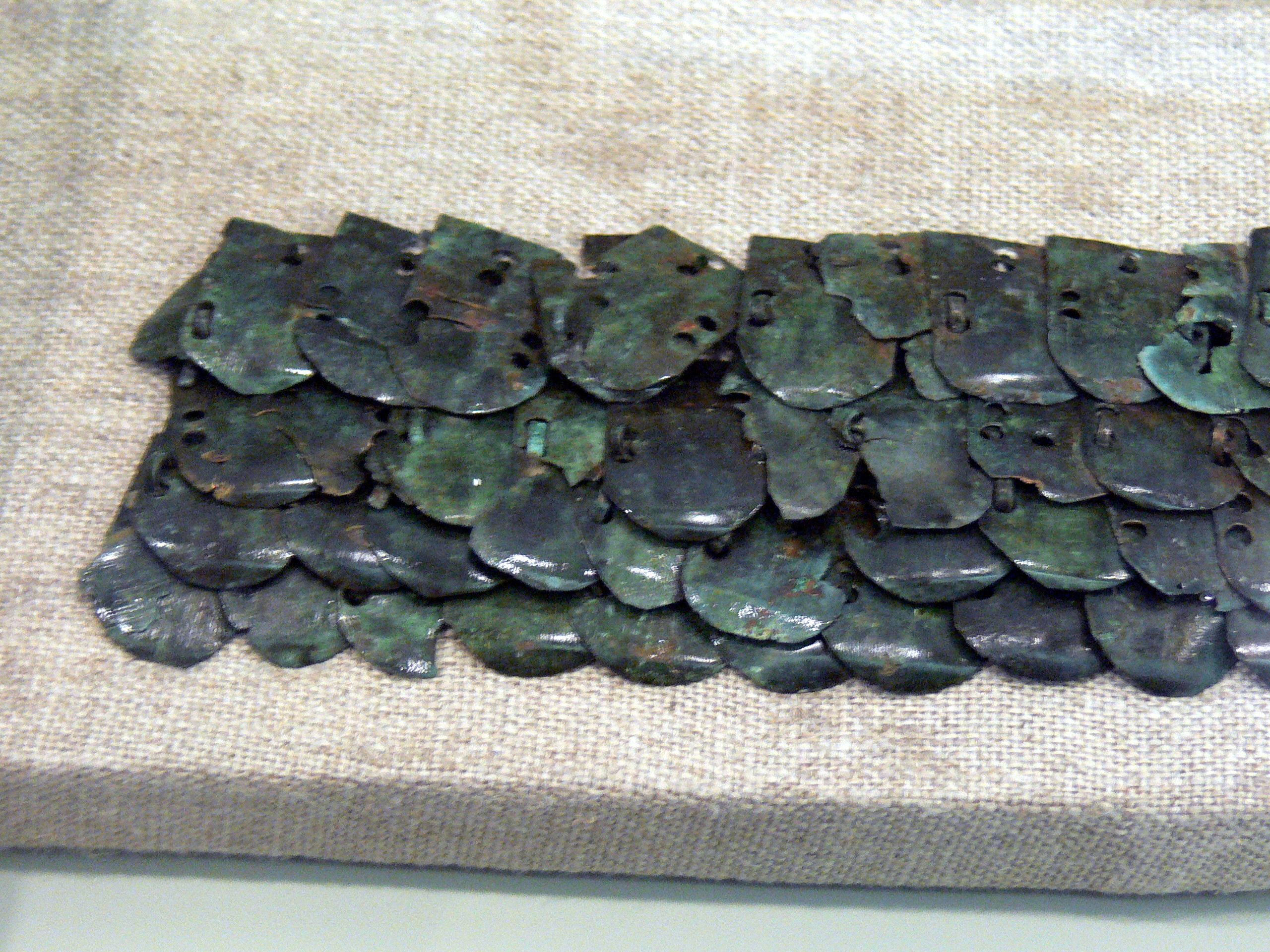 Castle museums in Linz ( Upper Austria ). Archeological collection: Remnants of Roman scale mail ( lorica squamata ) from Enns.